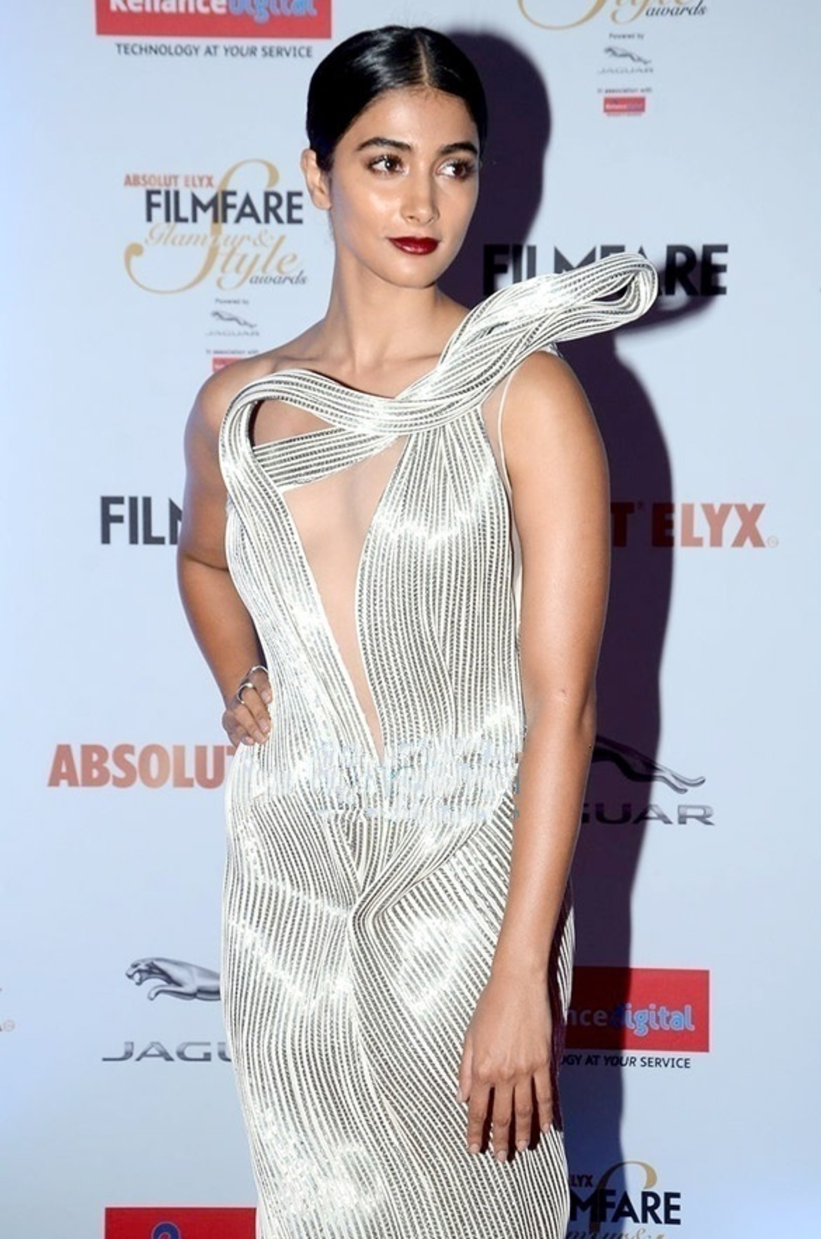 Pooja Heghe at Filmfare Glamour & Style Awards, 2016